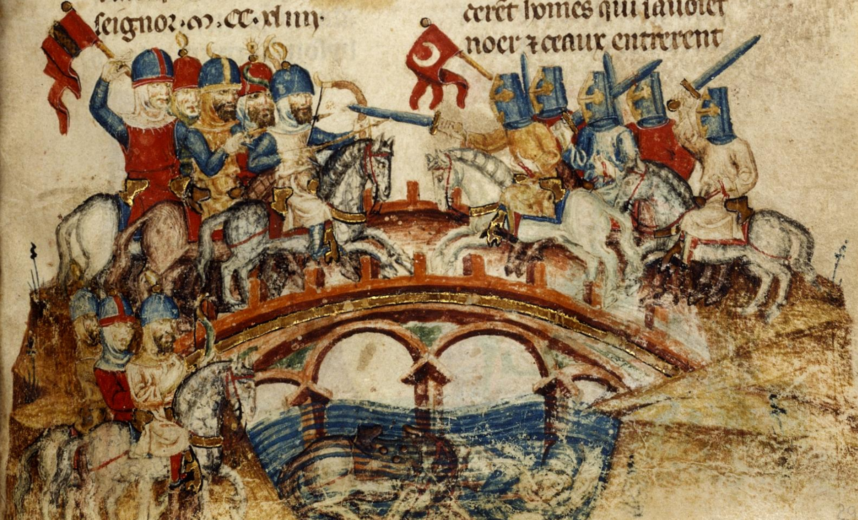 Battle of Mohi 1241 between Hungarians and Mongols